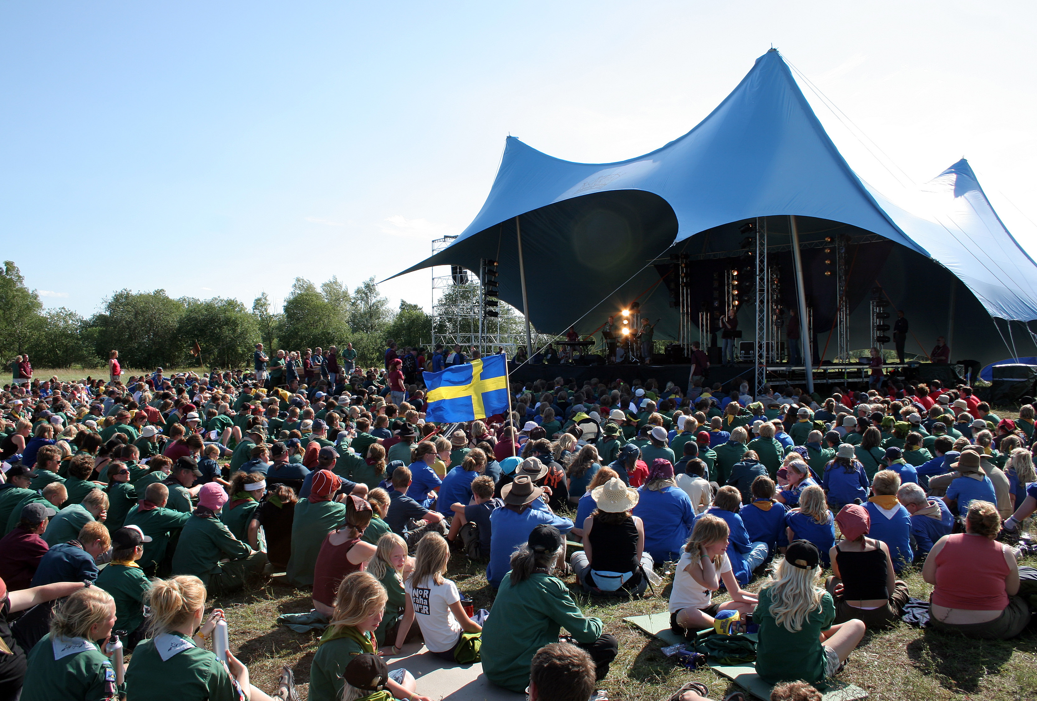 One of the church services at Jiingijamborii national jamboree in Rinkaby, Sweden.